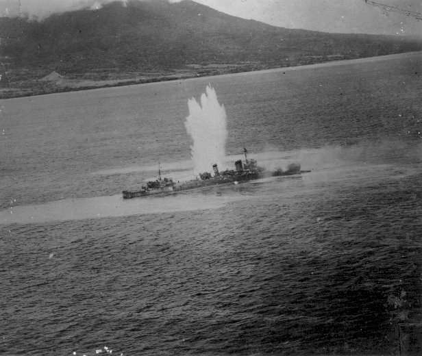 Imperial Japanese Navy destroyer Mikazuki under attack of B-25 Mitchells from 3rd Attack Group 5th Air Force USAAF near Cape Gloucester, New Britain, July 28, 1943.